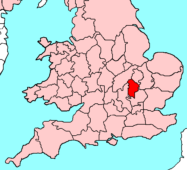 Bedfordshire